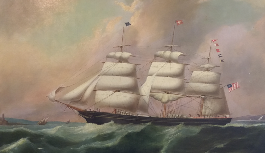 Carrier Dove of Baltimore, by Samual Buttersworth